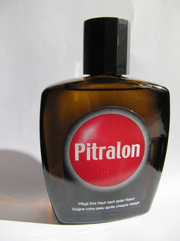 Pitralon After Shave, Swiss Version. Own Picture.